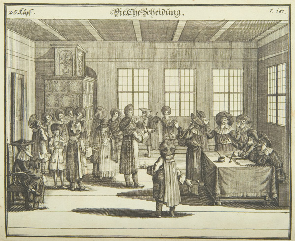 Illustration from Juedisches Ceremoniel, a German book published in Nürnberg in 1724 by Peter Conrad Monath. The book is a beautifully illustrated description of Jewish religious ceremonies, rites of passage and feast days, which first appeared in 1716, here in its second edition of 1724. The extremely detailed plates, by Georg Puschner, depict priestly robes, the celebrations of the New Year, Passover, the weekly Sabbath, circumcision, presentation of the first born, prayer at the synagogue, a wedding procession and a wedding, purification of the bride, the washing of the brother-in-law's feet, the feast of reconciliation, death rites, burials, as well as the procedures for other Jewish customs.